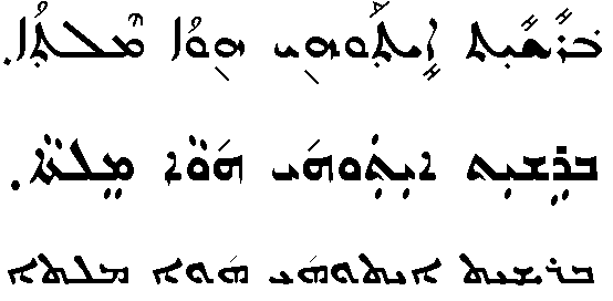 The three main varients of the Syriac alphabet showing the opening words of John's Gospel